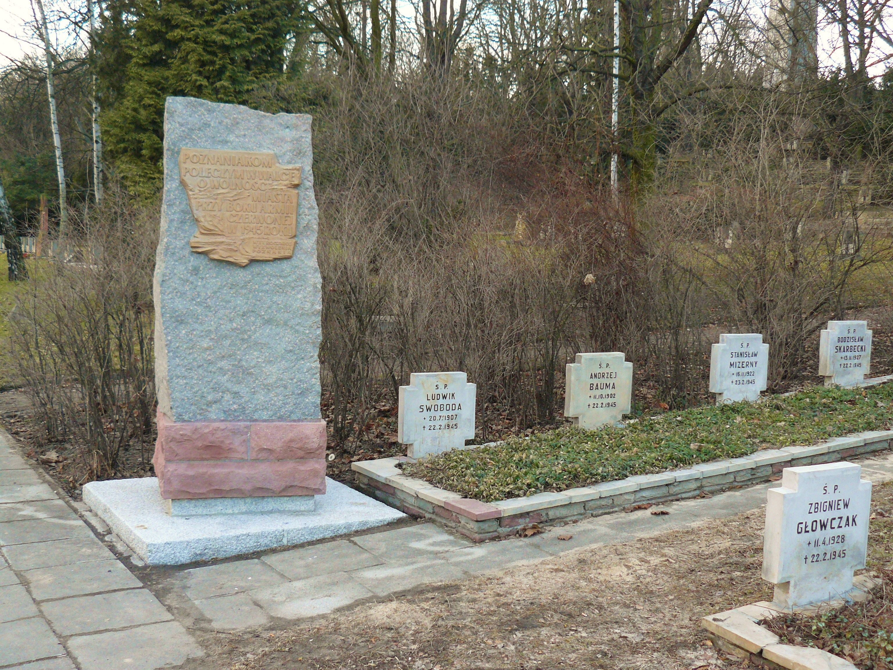 Monument of Cytadelowce - Poznan.